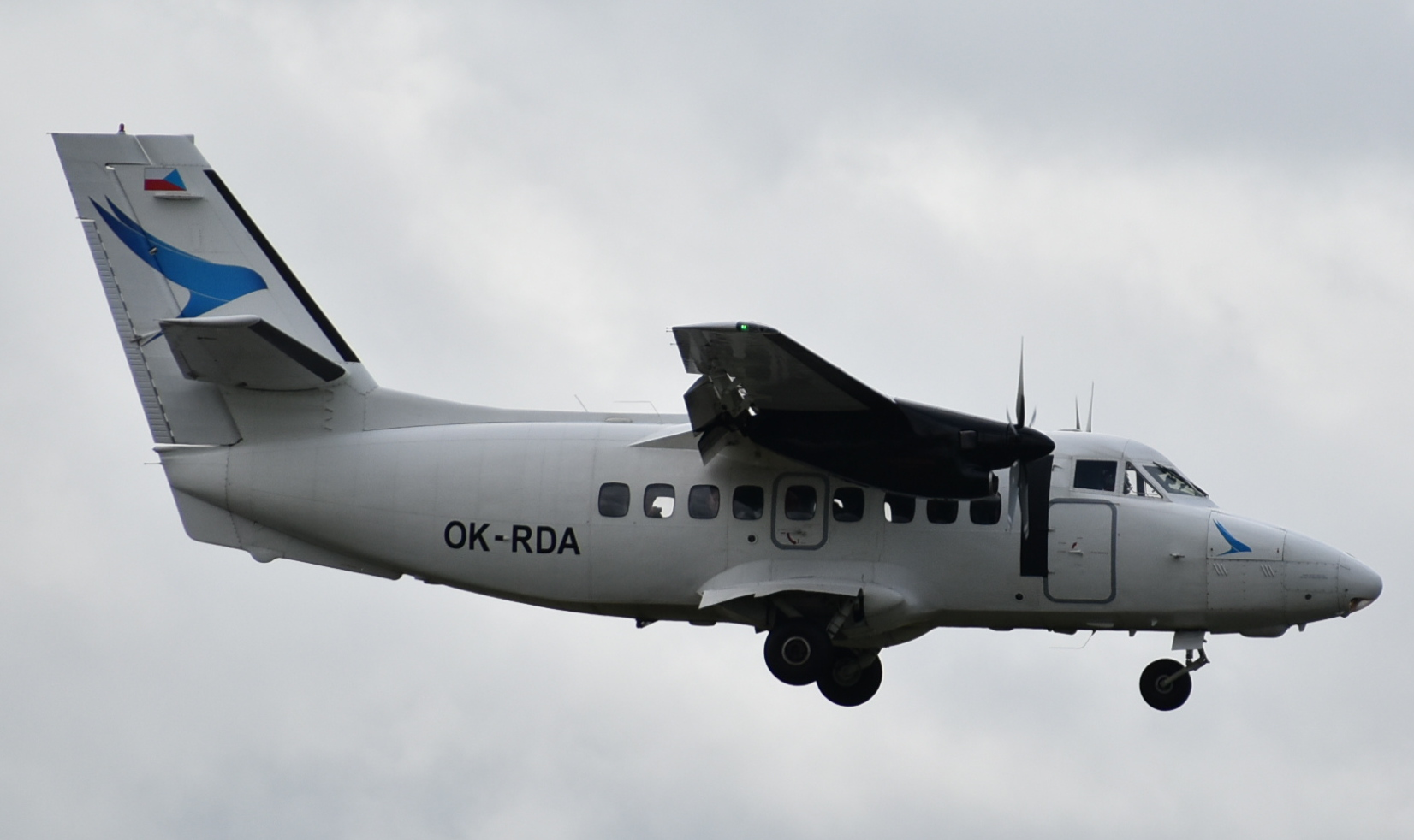 LET L-410 of Citywing at Gloucester Staverton,Gloucs., 13/08/16.